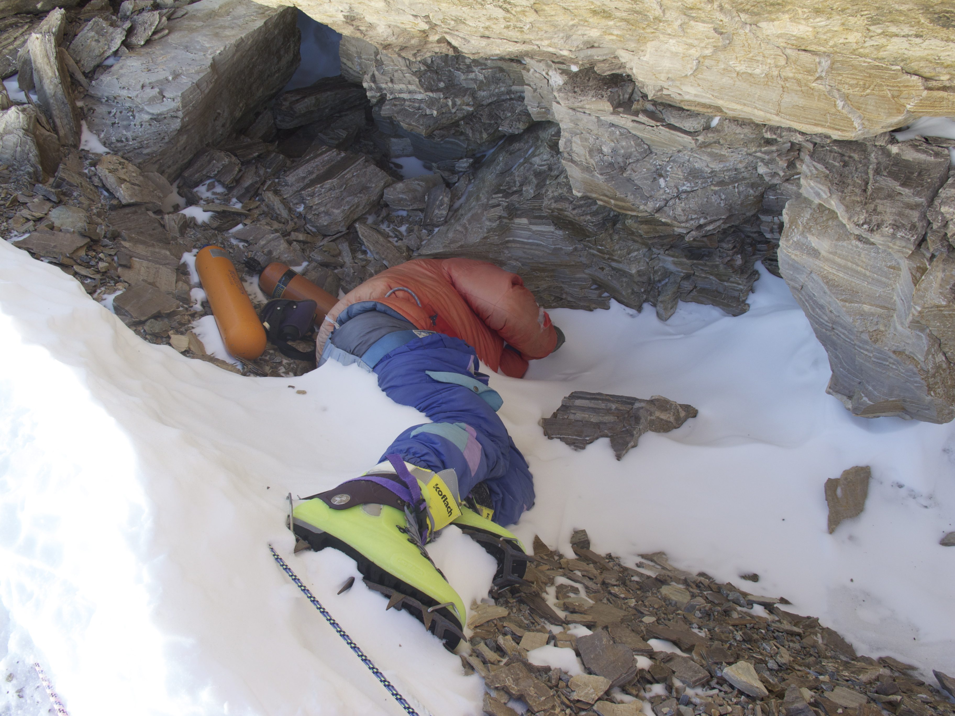 Photo of "Green Boots", Indian climber who died on the Northeast Ridge of Mt. Everest in 1996.